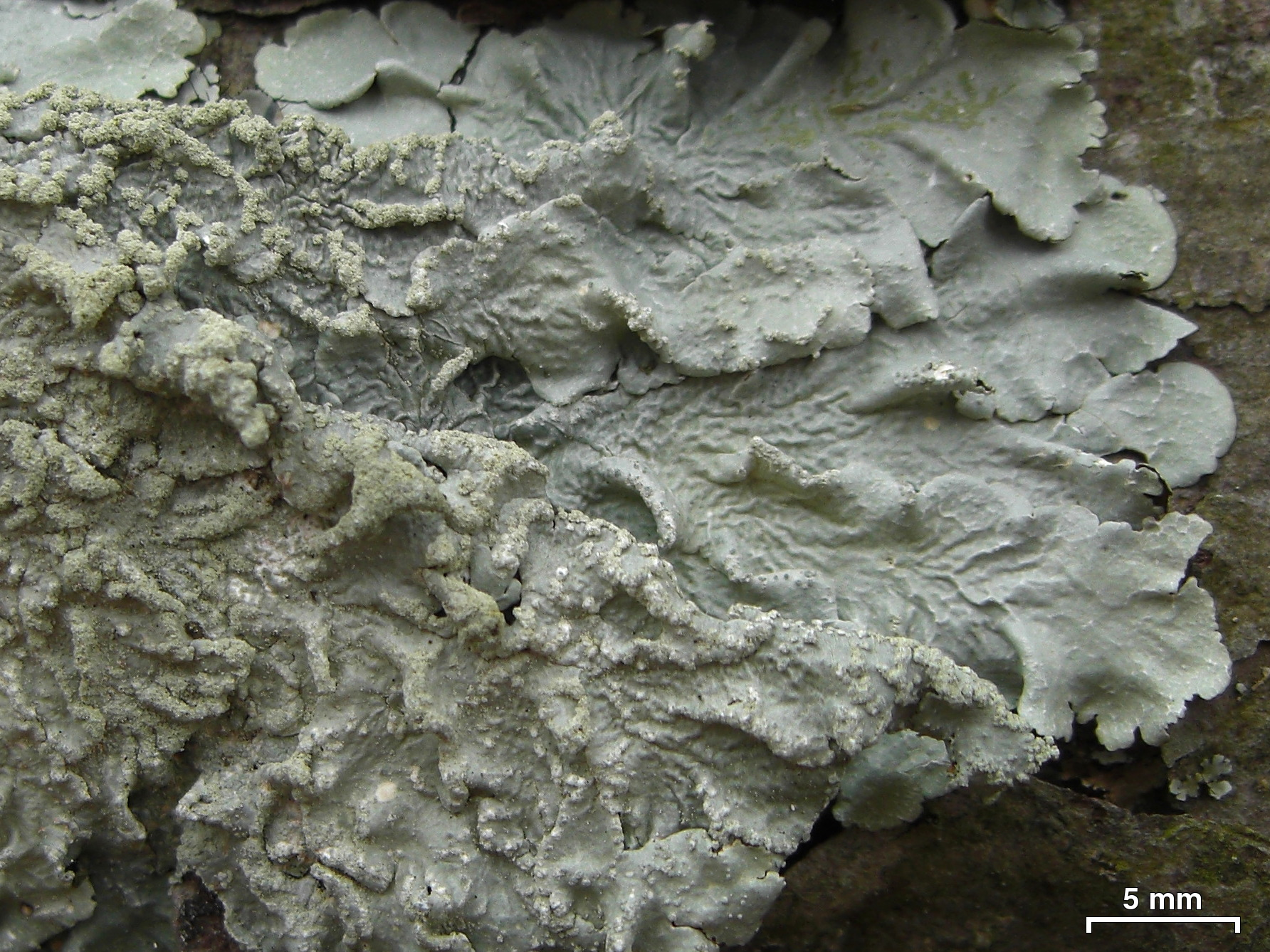 Wicomico and Worchester Counties, Delmarva, 20131128-1130